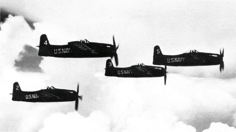 Four Grumman F8F Bearcat fighters of the U.S. Navy flight demonstration team Blue Angels in the late 1940s.